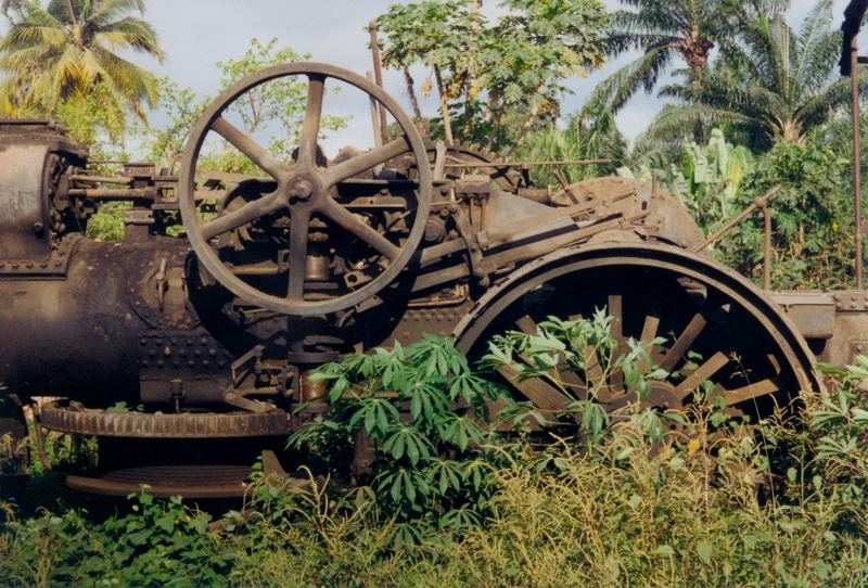 Derelict ploughing engine (the winding drum under the boiler is the giveaway!) — Lobito, Benguela, Angola, Railway